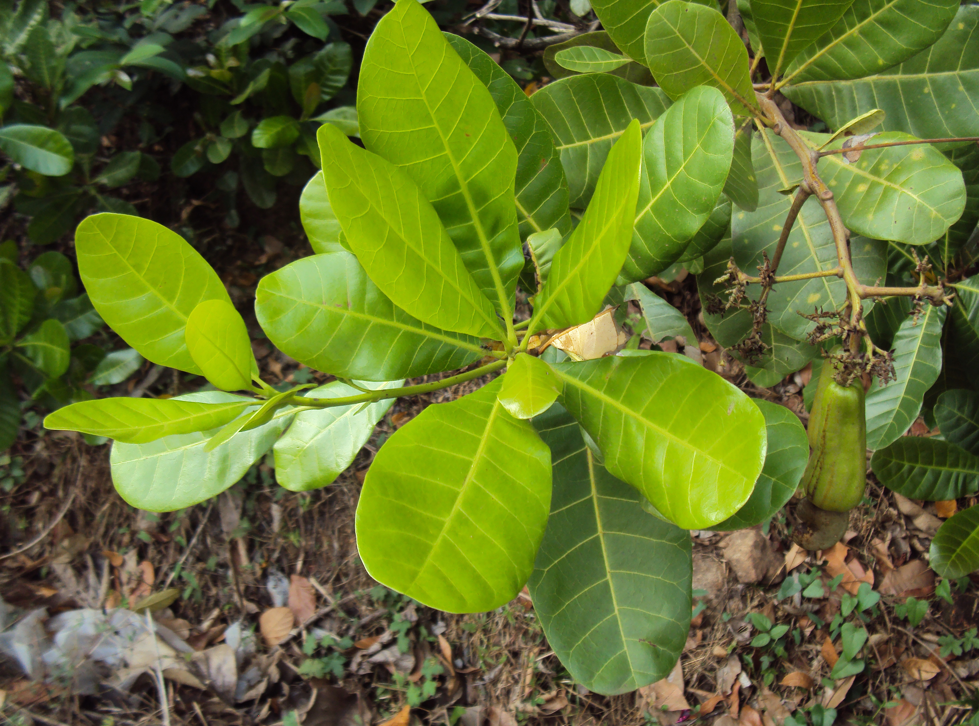 Anacardium occidentale